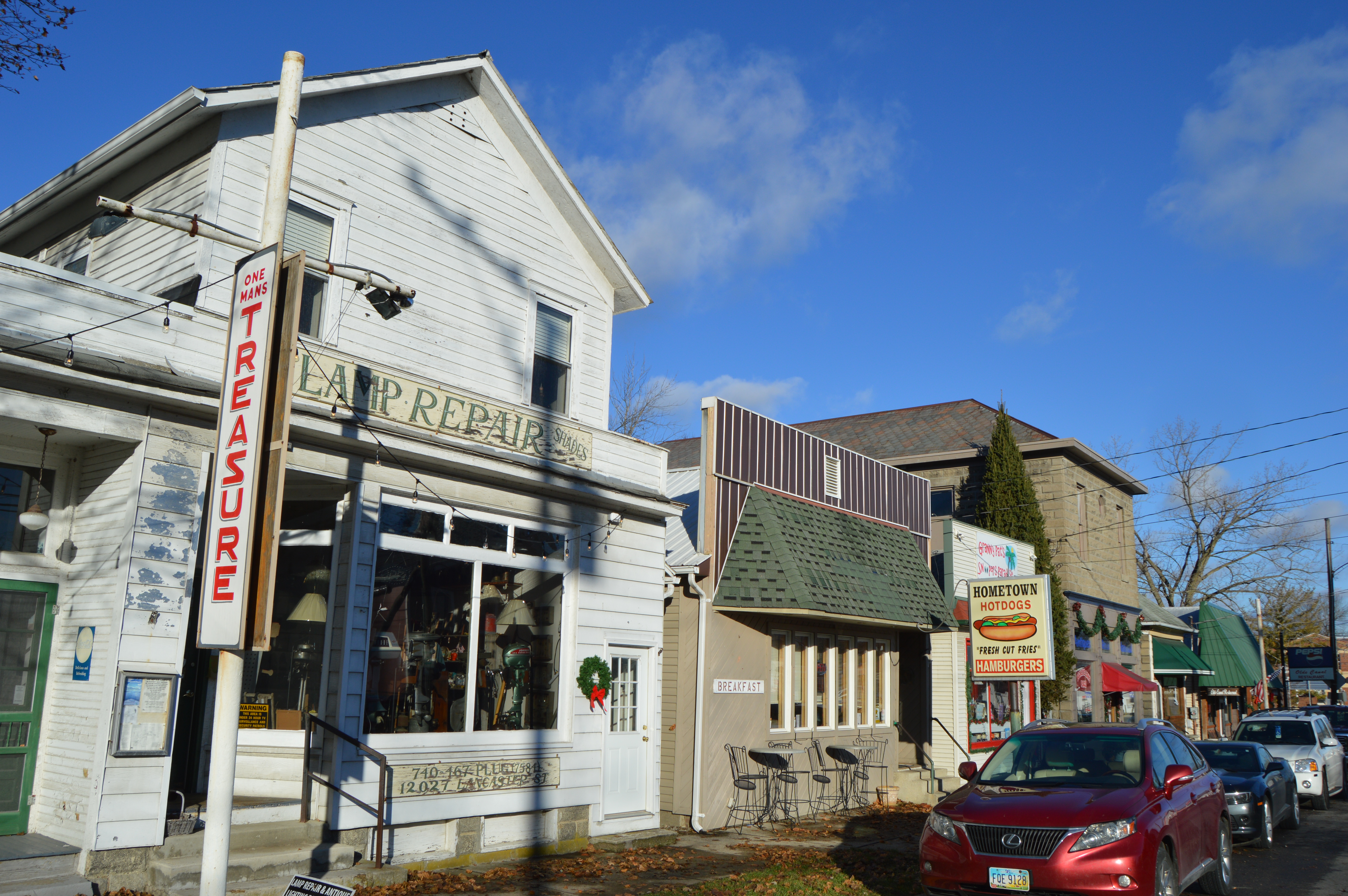 Buildings on the western side of Lancaster Street (State Route 204) in downtown Millersport, Ohio, United States.